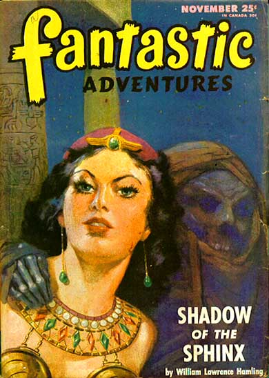 Cover of Fantastic Adventures, November 1946